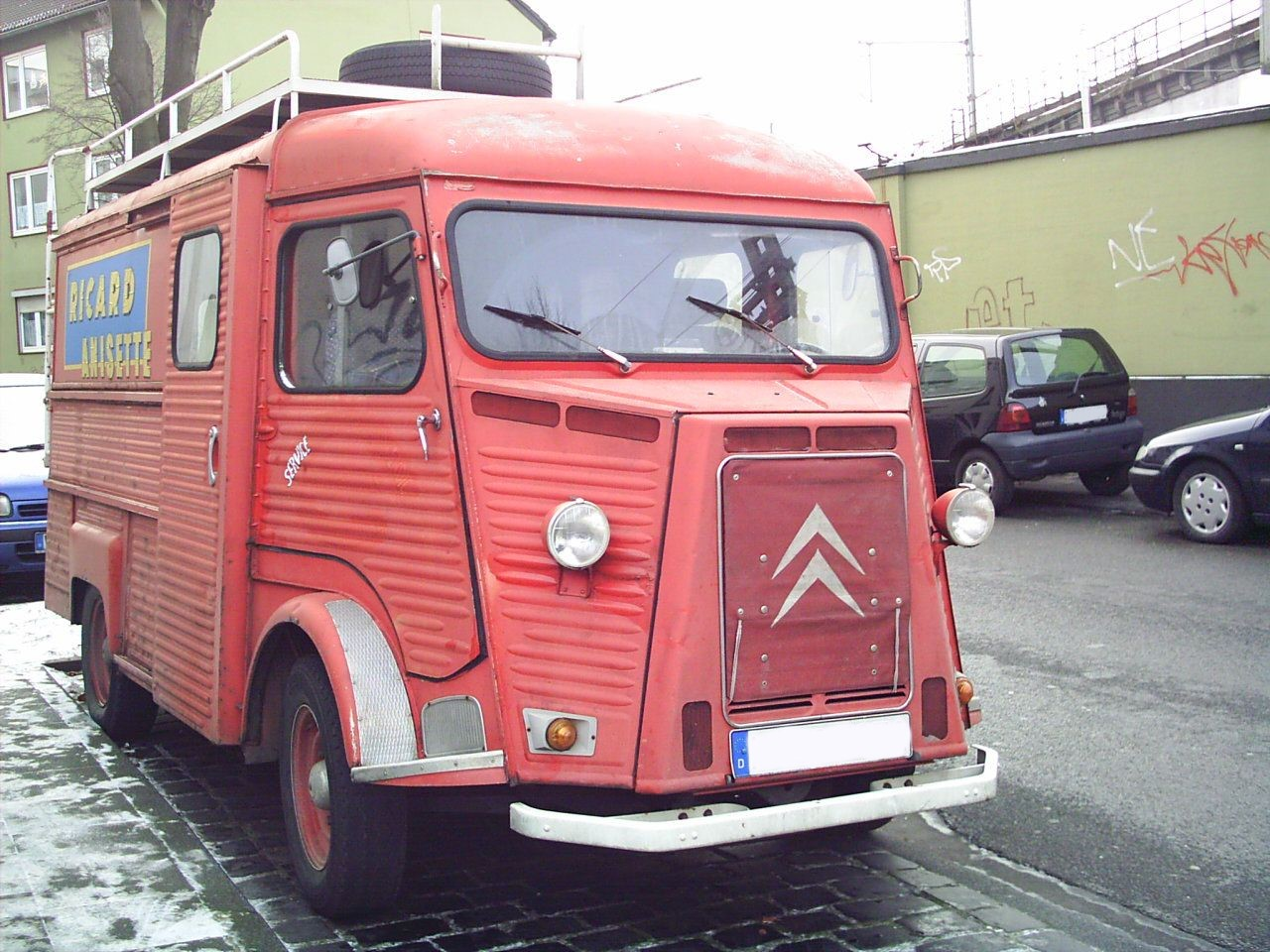 Citroën HY, Cologne, Germany check usage